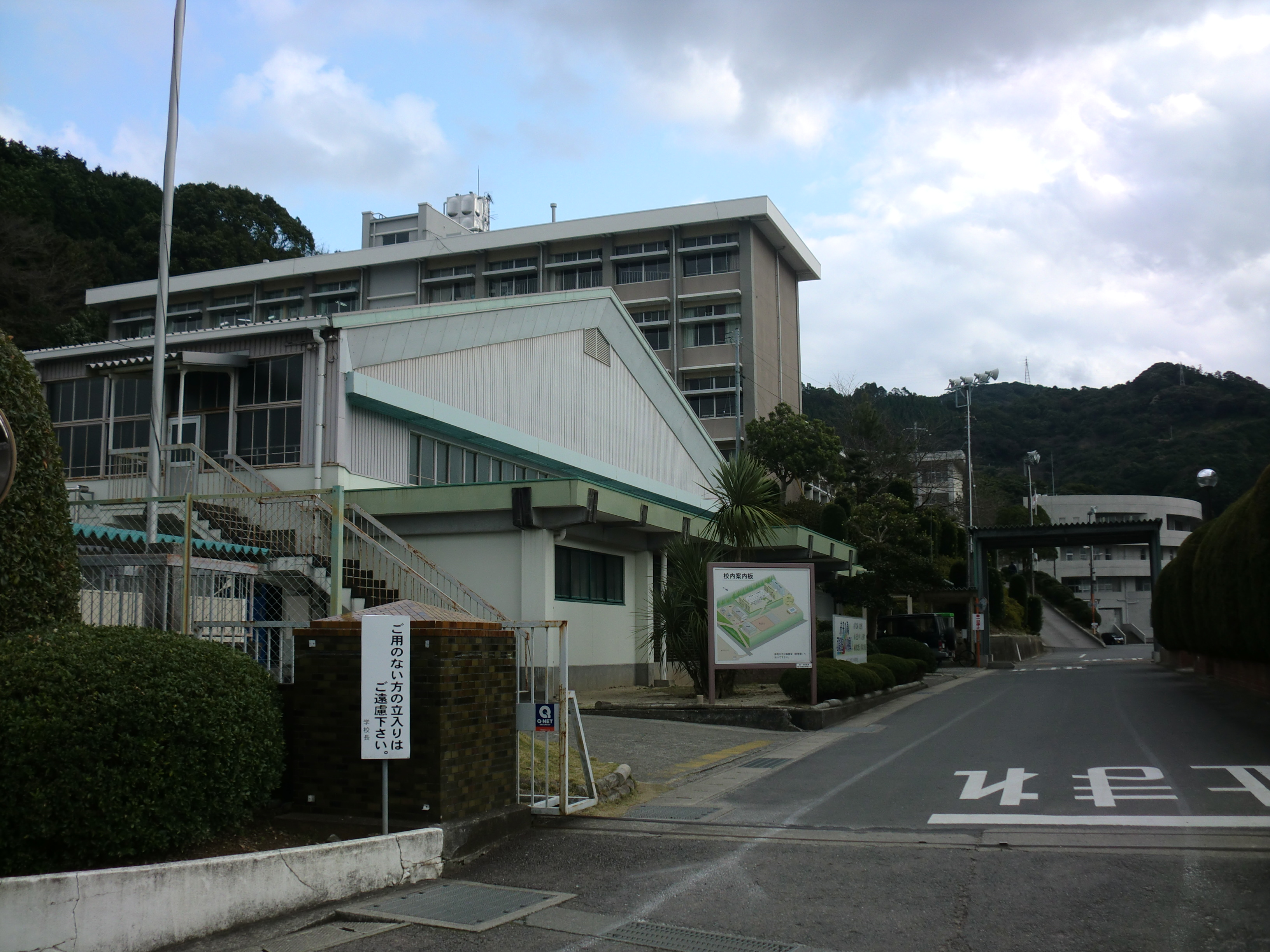 Minamata High school